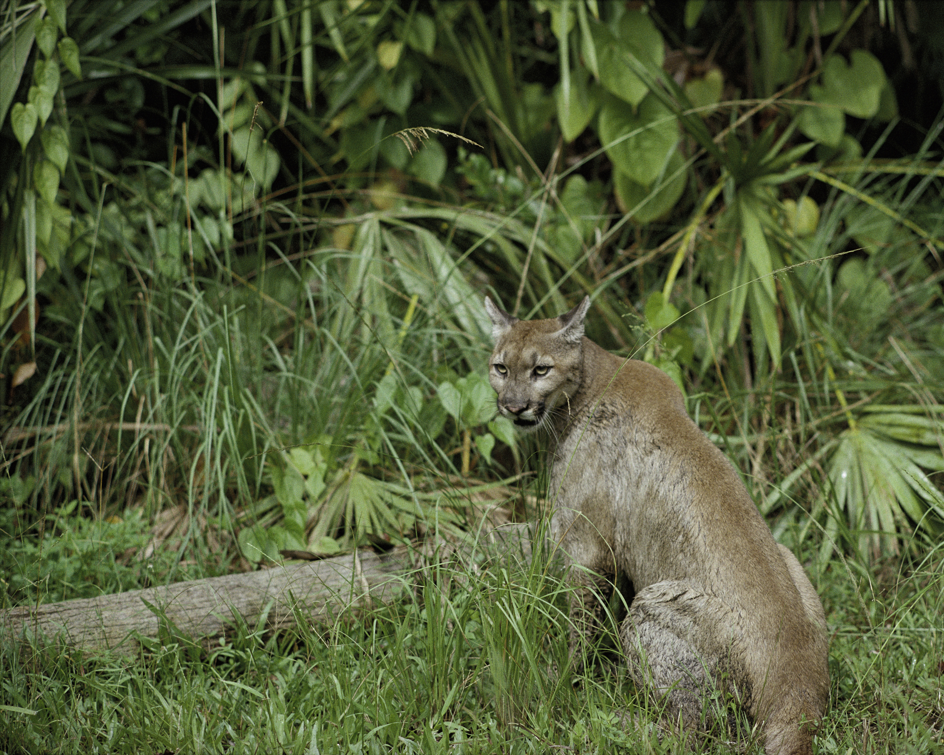 Puma concolor coryi Florida Panther National Wildlife Refuge